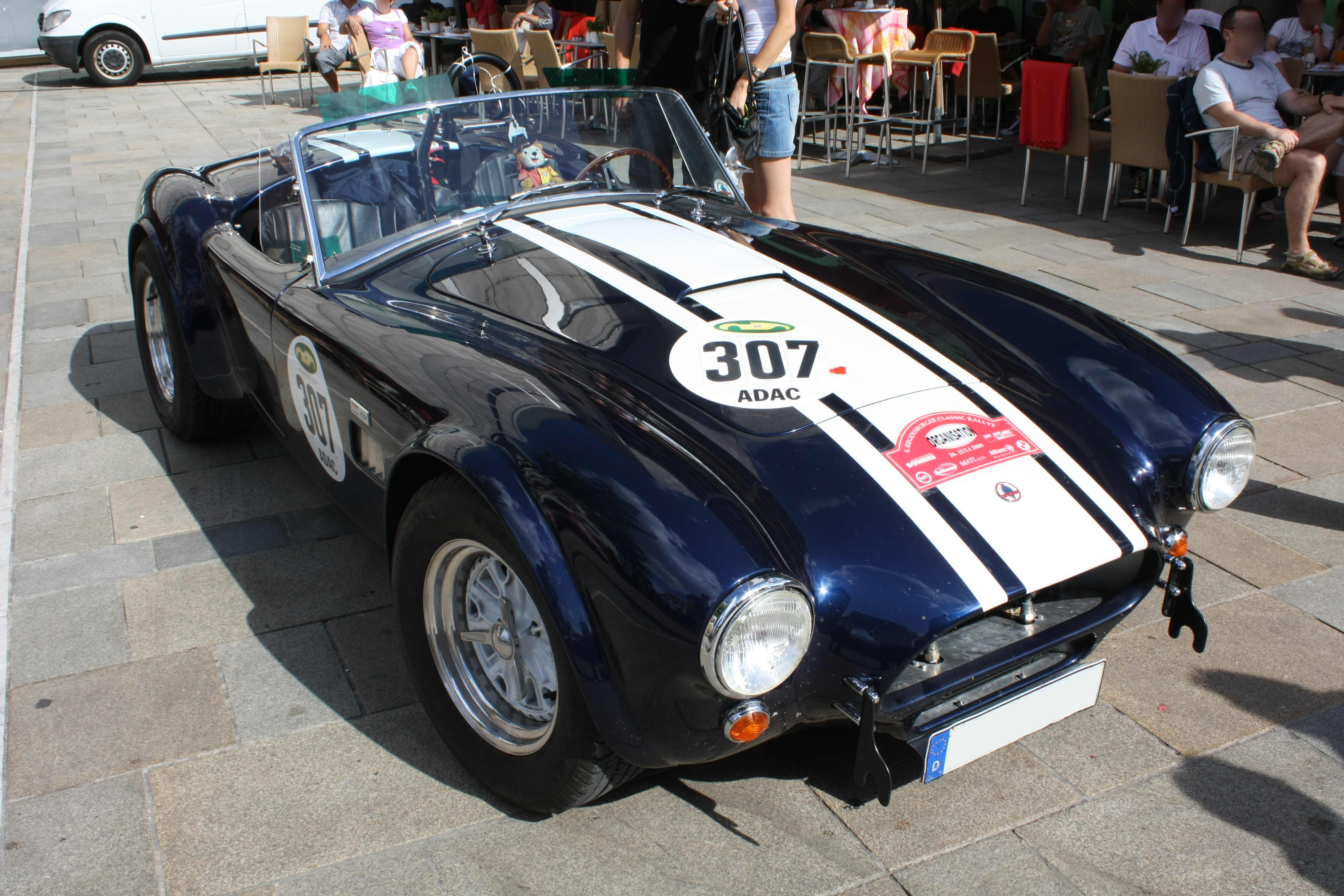 AC Cobra 427